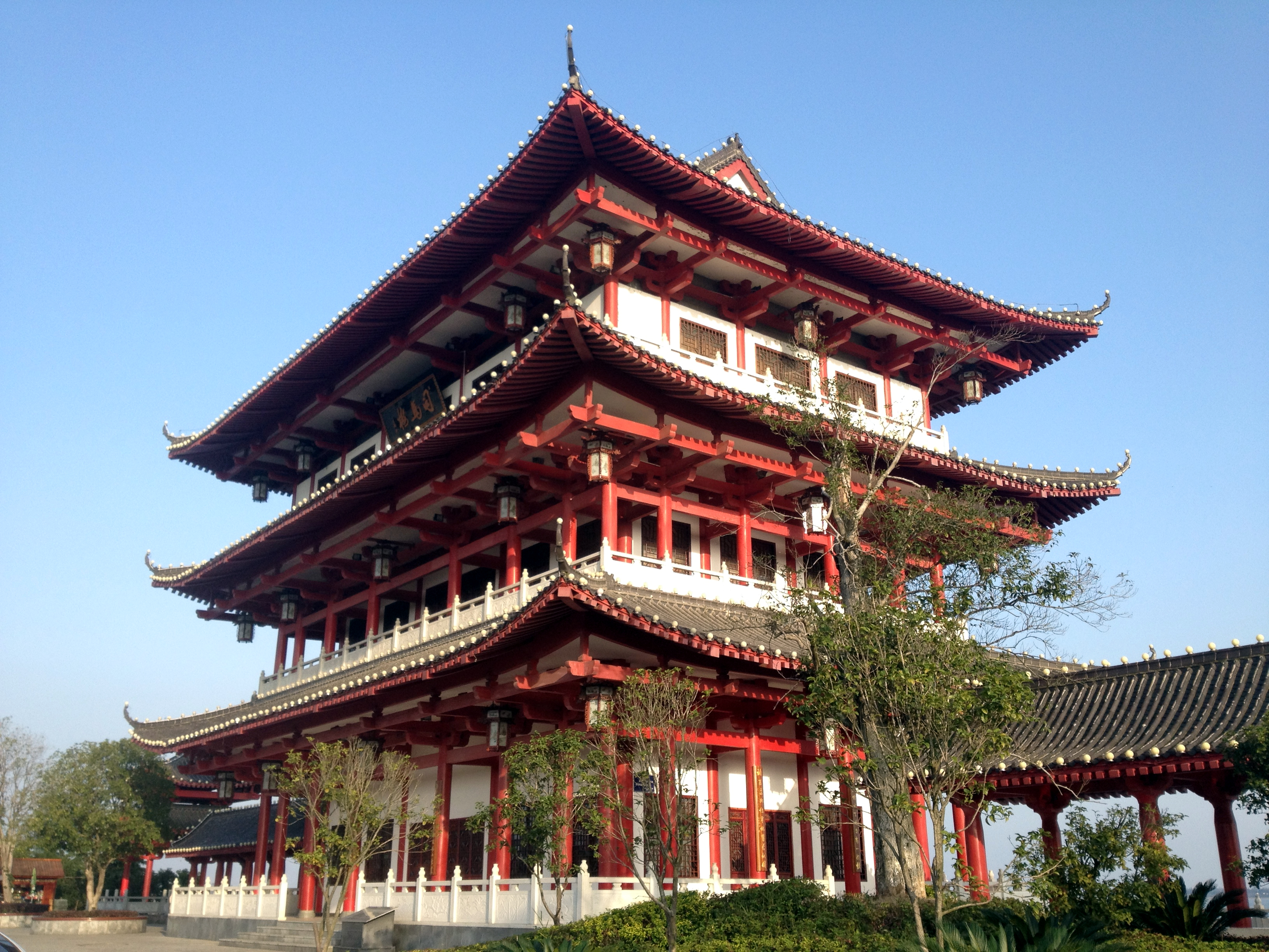 Simalou (司马楼) on Liuye lake in Changde, Hunan, China. The name breaks down to "Sima", an official title in ancient China, and "lou", meaning simply "building". The first part of the name is a reference to Liu Yuxi (刘禹锡) a famous Tang Dynasty poet who served under that title for nine years in Changde. Behind the building is a statue of Liu Yuxi.